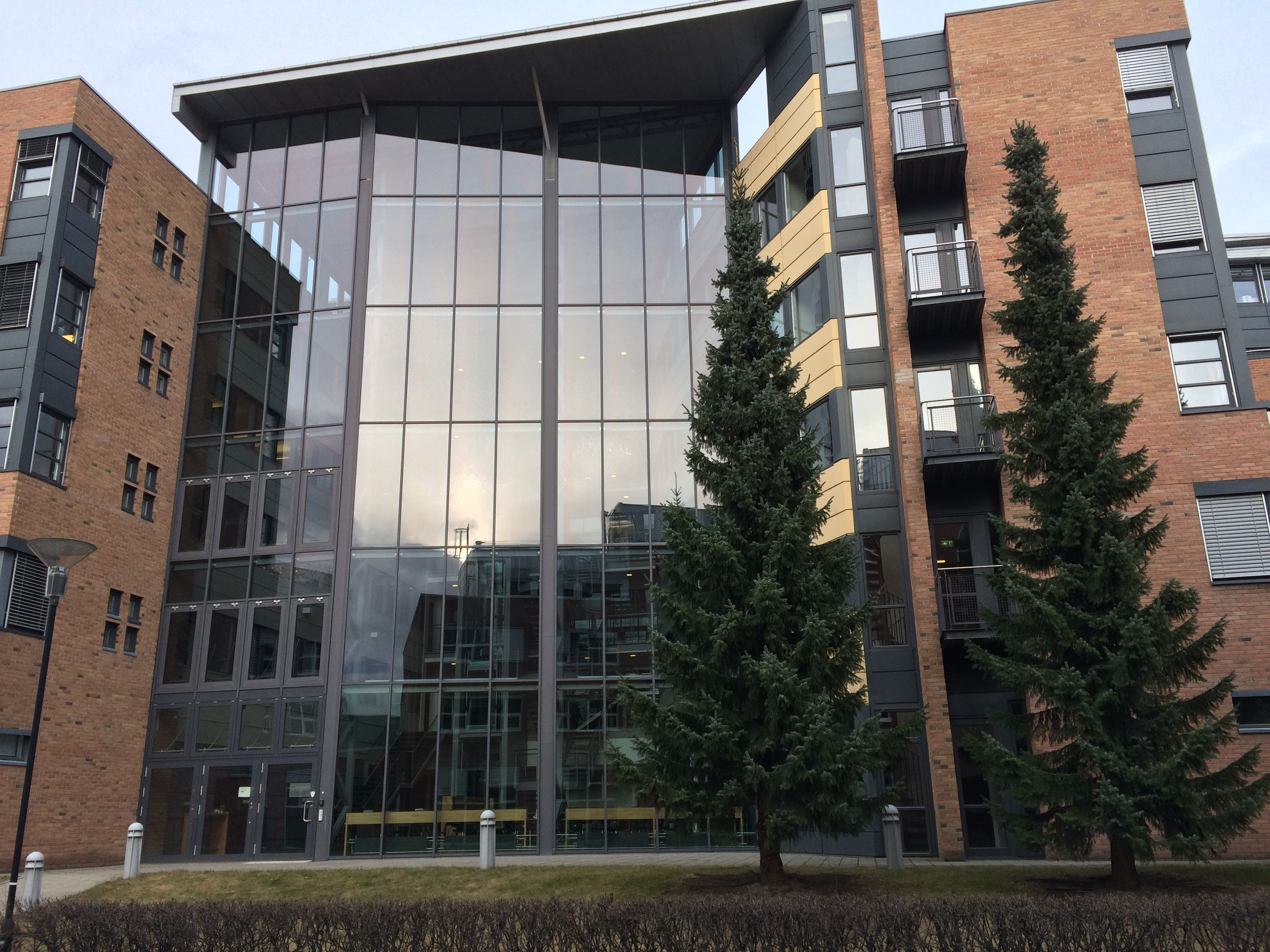 Gullhaugveien 1–3 in Nydalen, Oslo, Norway. HQ of various government agencies and research institutions, including NKVTS.